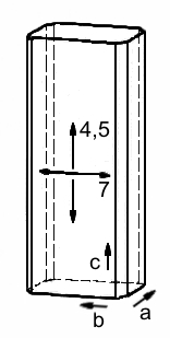 Kyanite - graphic representation of anisotropy in hardness on the axis of ordinates a, b and c